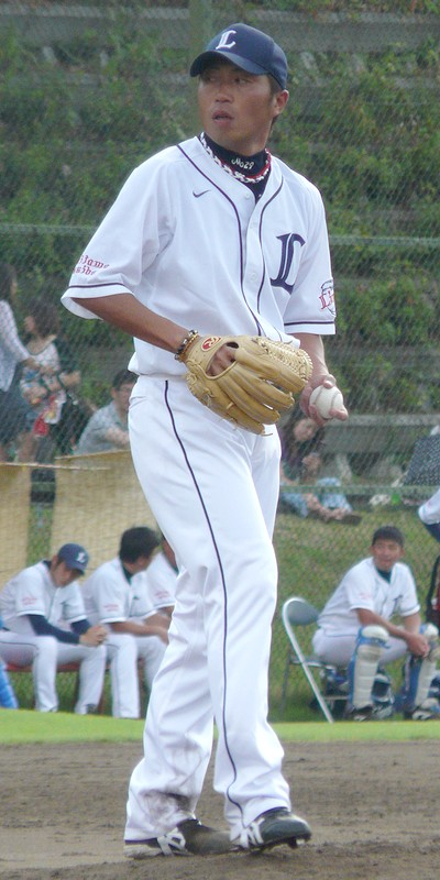 Kouji-Mitsui